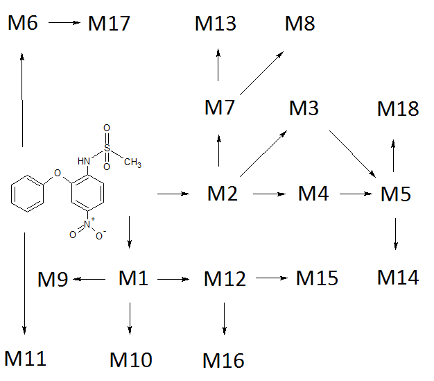 Nimesulide metabolic pathway.